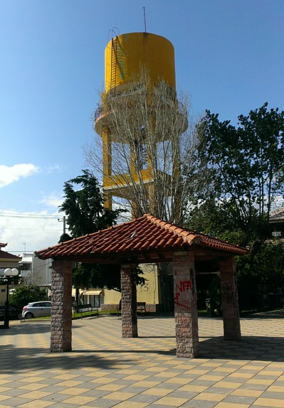 lykovrysi